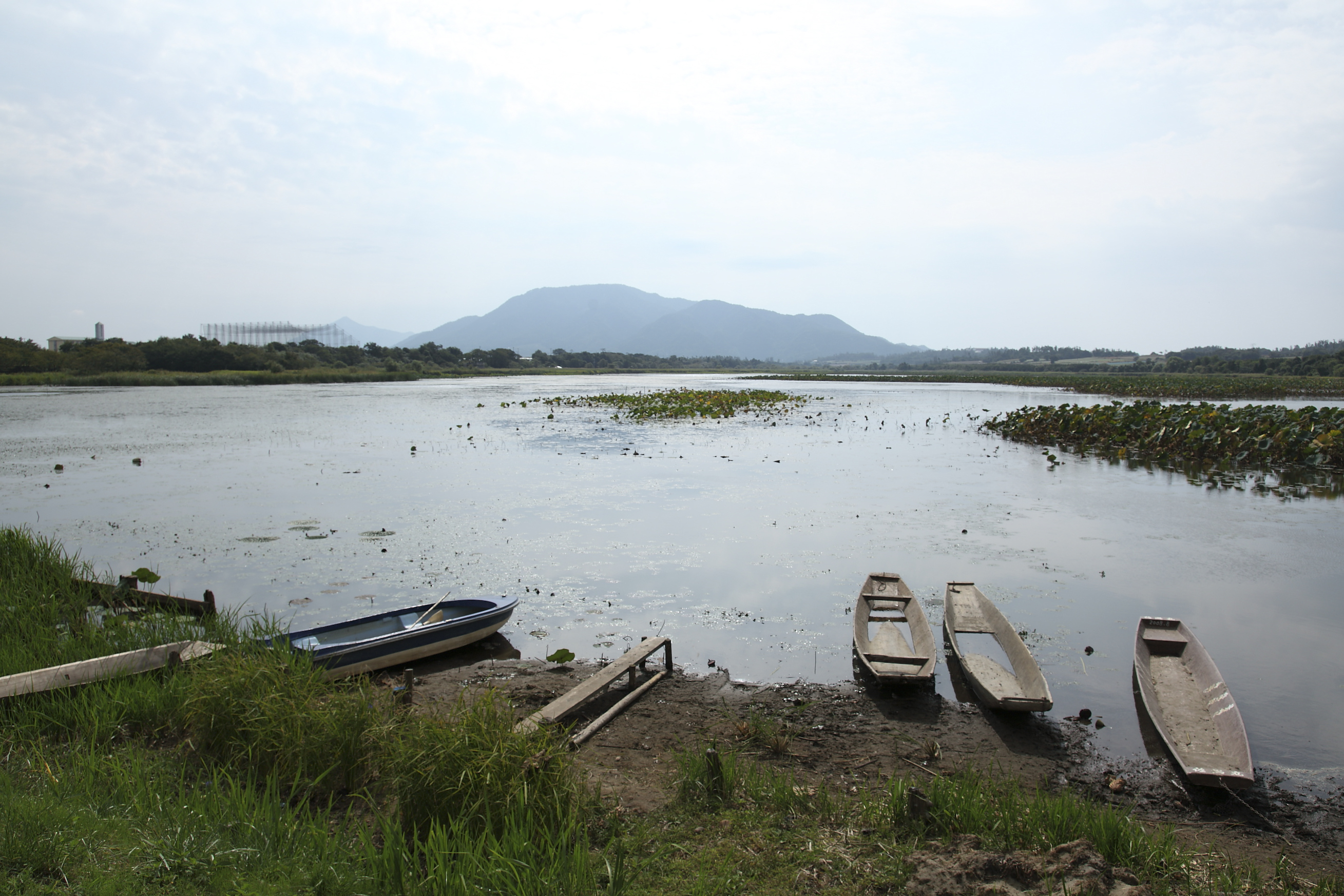 Sakata Lagoon in Niigata, Japan. See where this picture was taken.